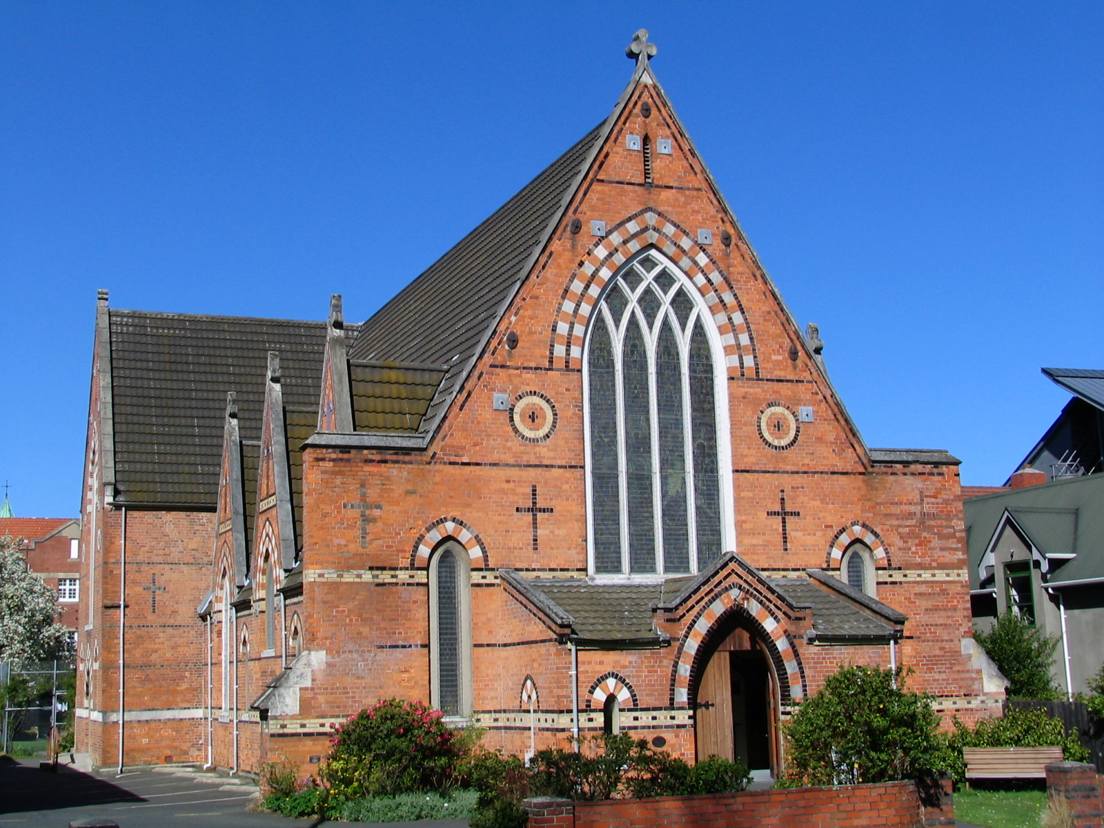 Exterior view of All Saints Anglican Church, Cumberland Street, Dunedin, New Zealand.